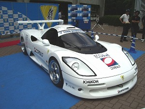 The Tokai University "Study Car", a prototype racing sports car for the Le Mans 24 Hours.